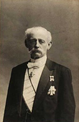 Ludvig Castenskiold (1823-1905), Danish army officer and courtier